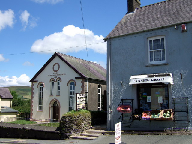 Chapel and butcher, Crymych Spiritual and bodily nourishment side by side. Capel Seion (Baptist) built 1900; the shop supplies meat-and-two-veg for Sunday dinner after the service.